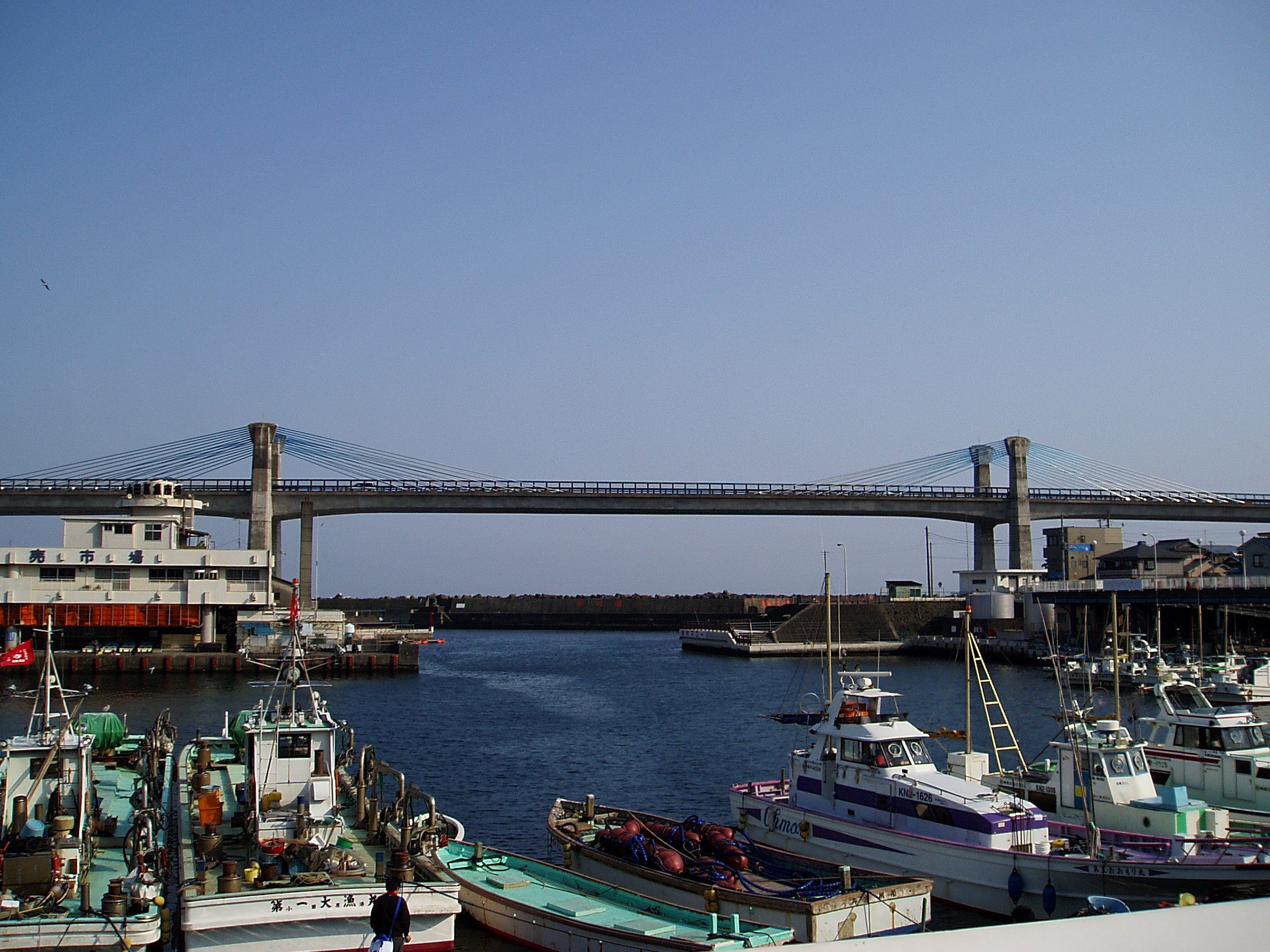 The Odawara Blue Way Bridge is located in Odawara city, Kanagawa prefecture, Japan.